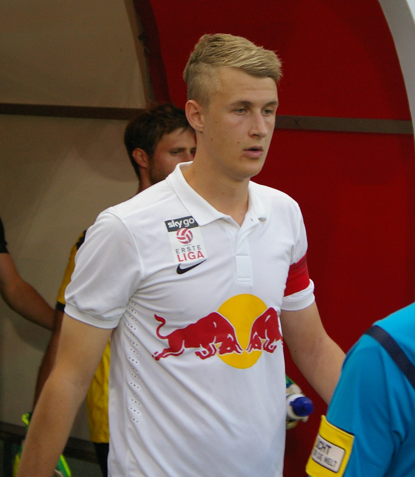 League match Austria 2nd league